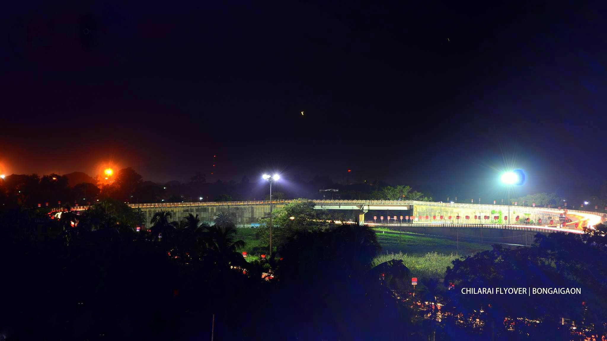 view of BCF